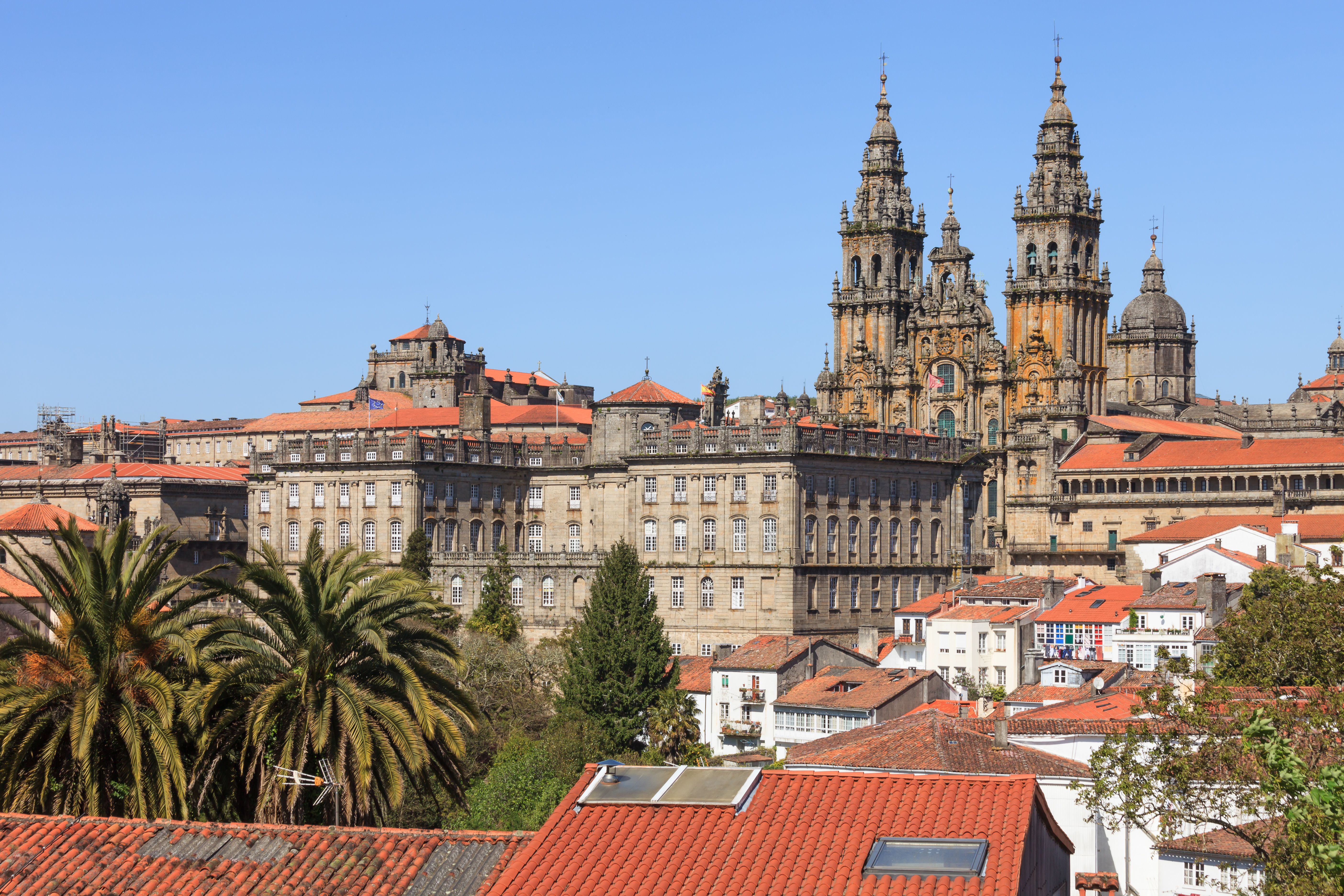 Obradoiro facade and the back of the Raxoi Palace, Santiago de Compostela, Galicia (Spain)